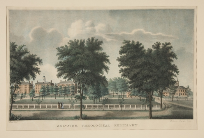 "Andover Theological Seminary," lithograph printed in colors, by the artist J. Kidder. 12 3/8 in. x 18 1/8 in. Courtesy of the Yale University Art Gallery, Yale University, New Haven, Conn.